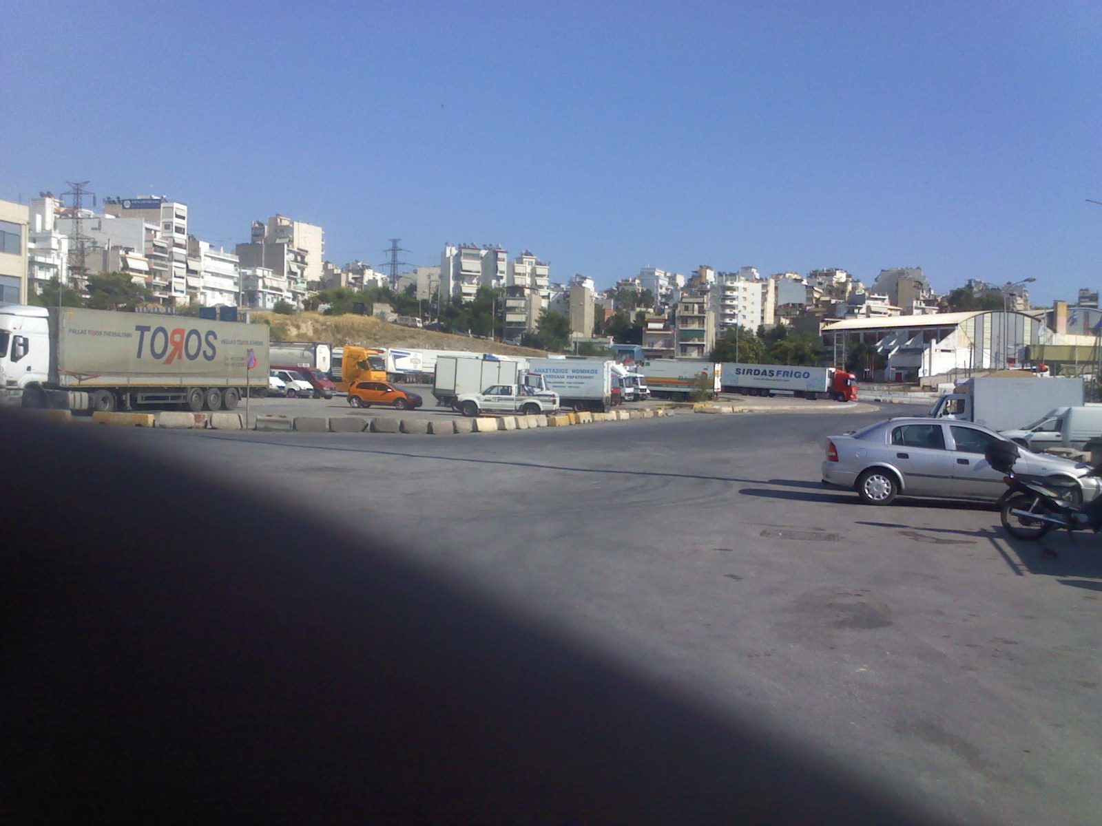 Keratsini from Fishscale